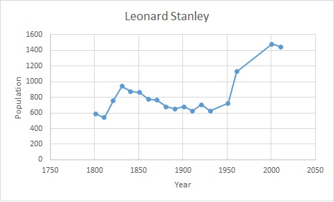 Population scatter and line graph of Leonard Stanley.